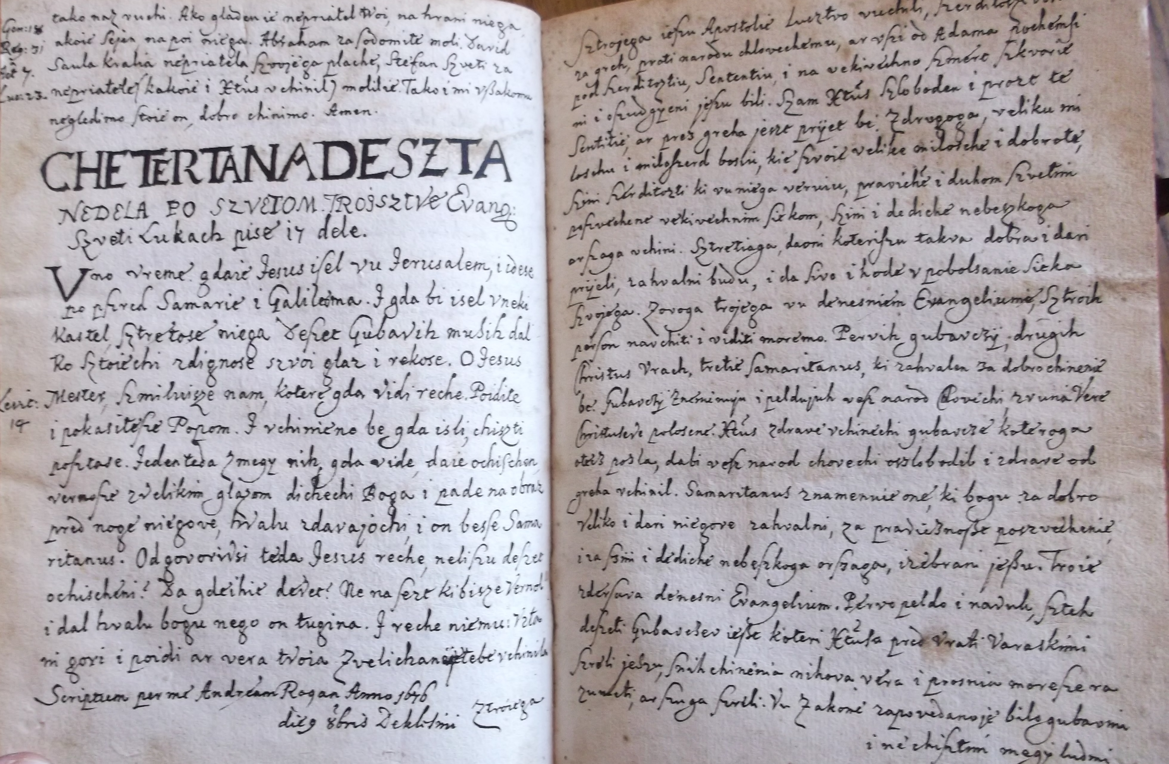 The manuscript of András Rogan, licenciat or priest of Dokležovje (Southern Prekmurje) from 1676. Transcription of the Postilla of Antun Vramec (1586). The language is mostly Kajkavian Croatian and some Prekmurian Slovene elements.